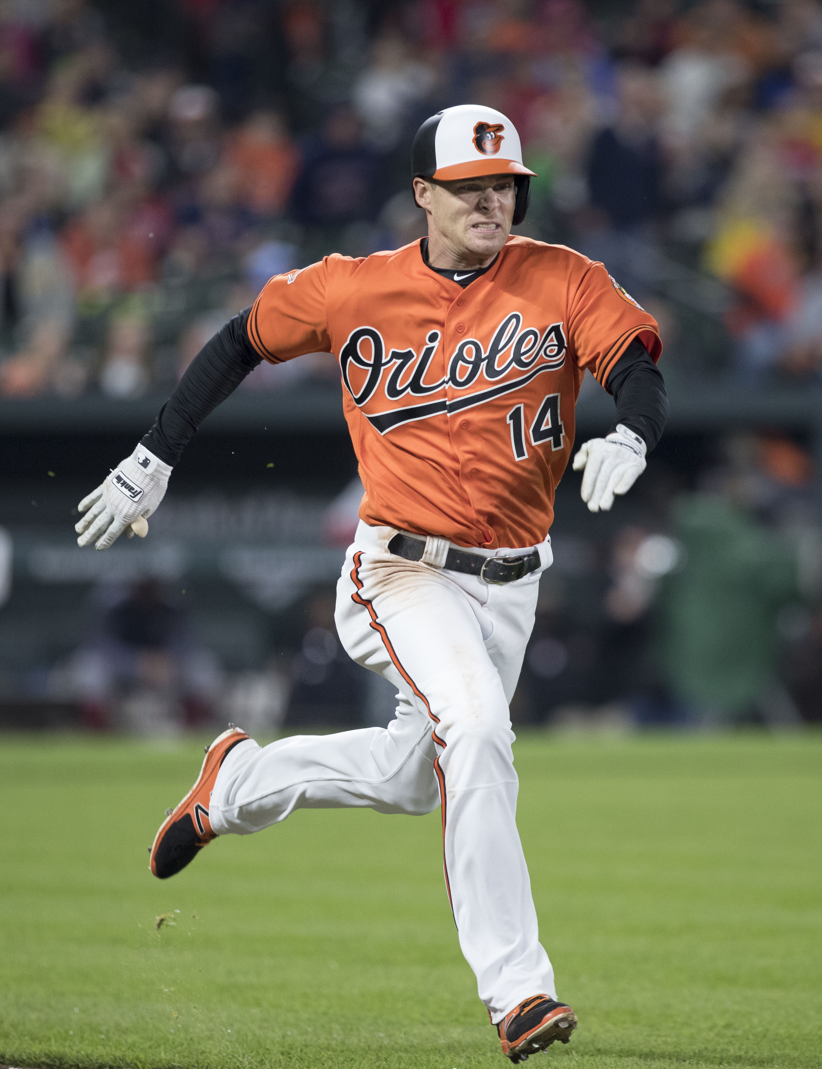 Red Sox at Orioles 4/22/17